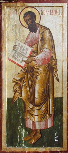 Saint Matthew, Russian icon from first quarter of 18th cen.